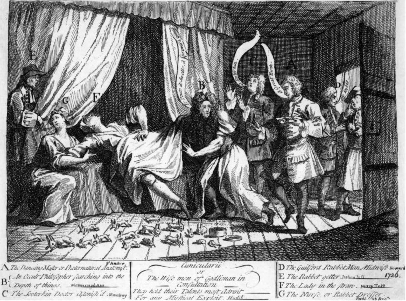 Mary Toft, apparently giving birth to rabbits.